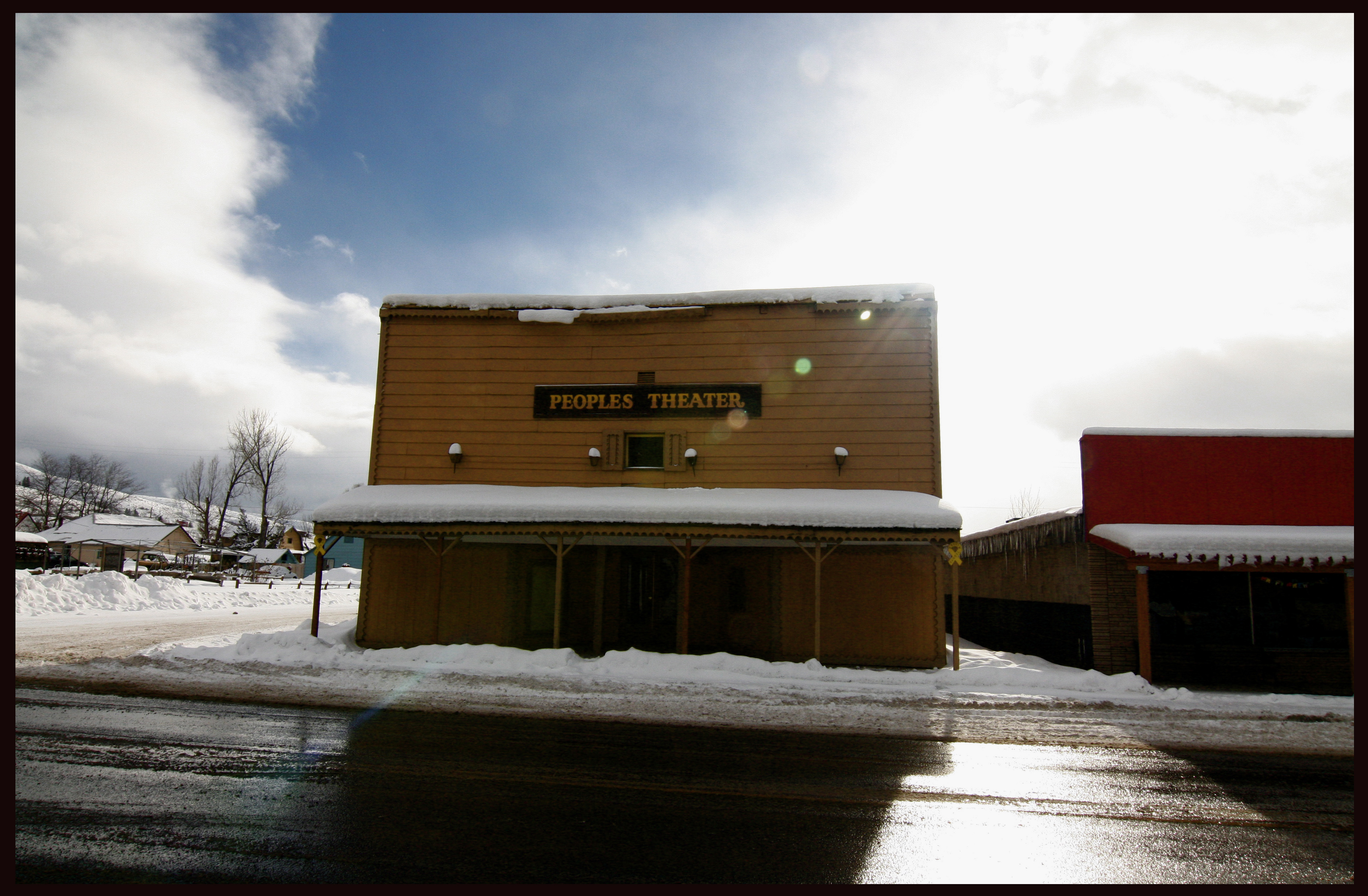 People's Theater in Council, Idaho, United States